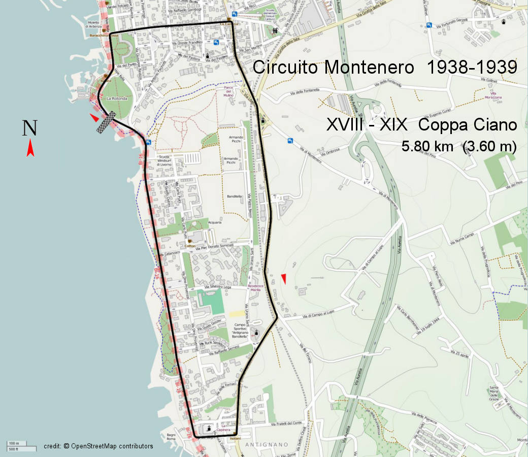 Street Map: Circuito Montenero 1938-1939